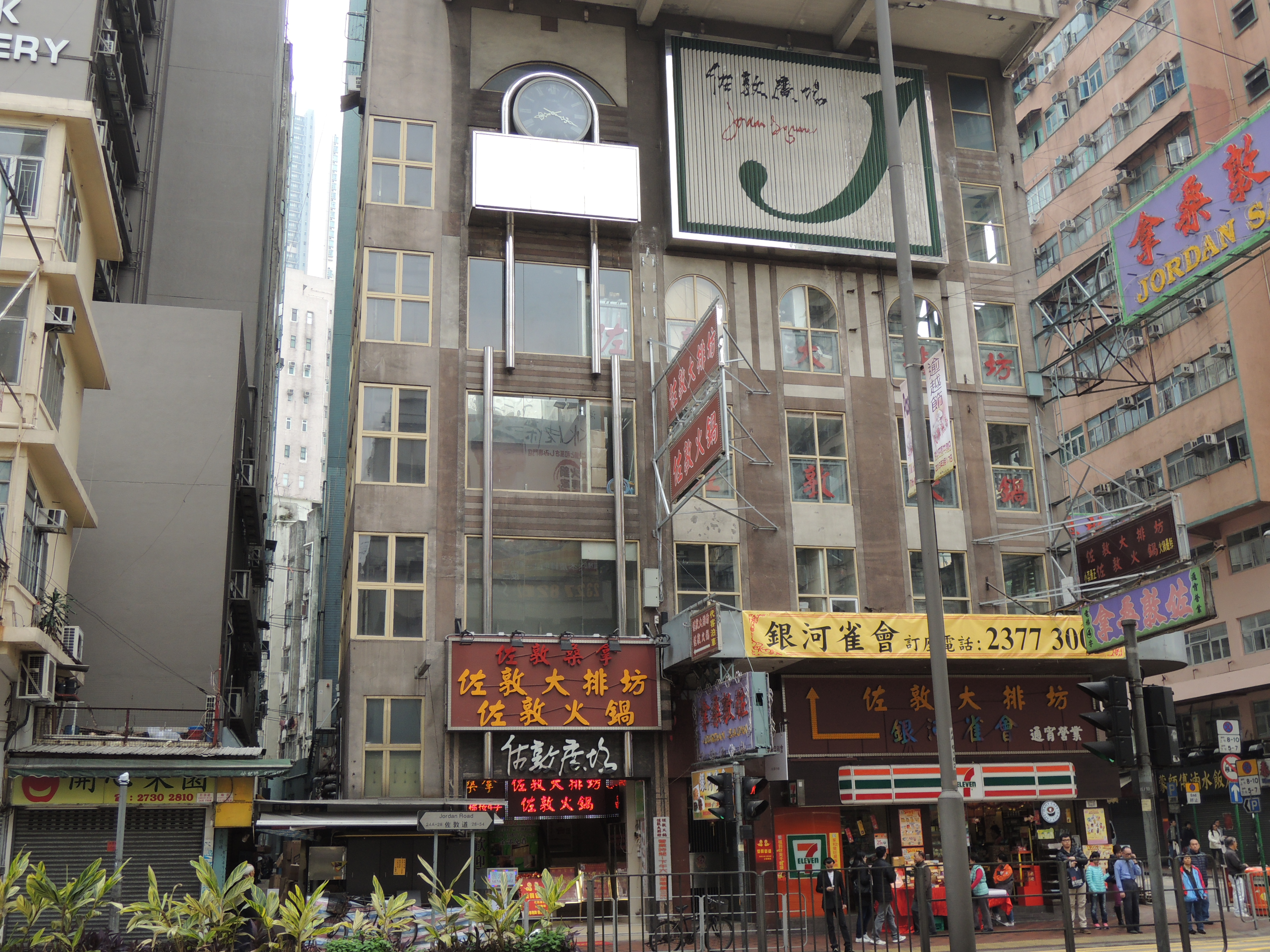 Jordan Square (28 Jordan Road, Kowloon, Hong Kong) 中文（香港）: 佐敦廣場 (香港油麻地佐敦道28號)